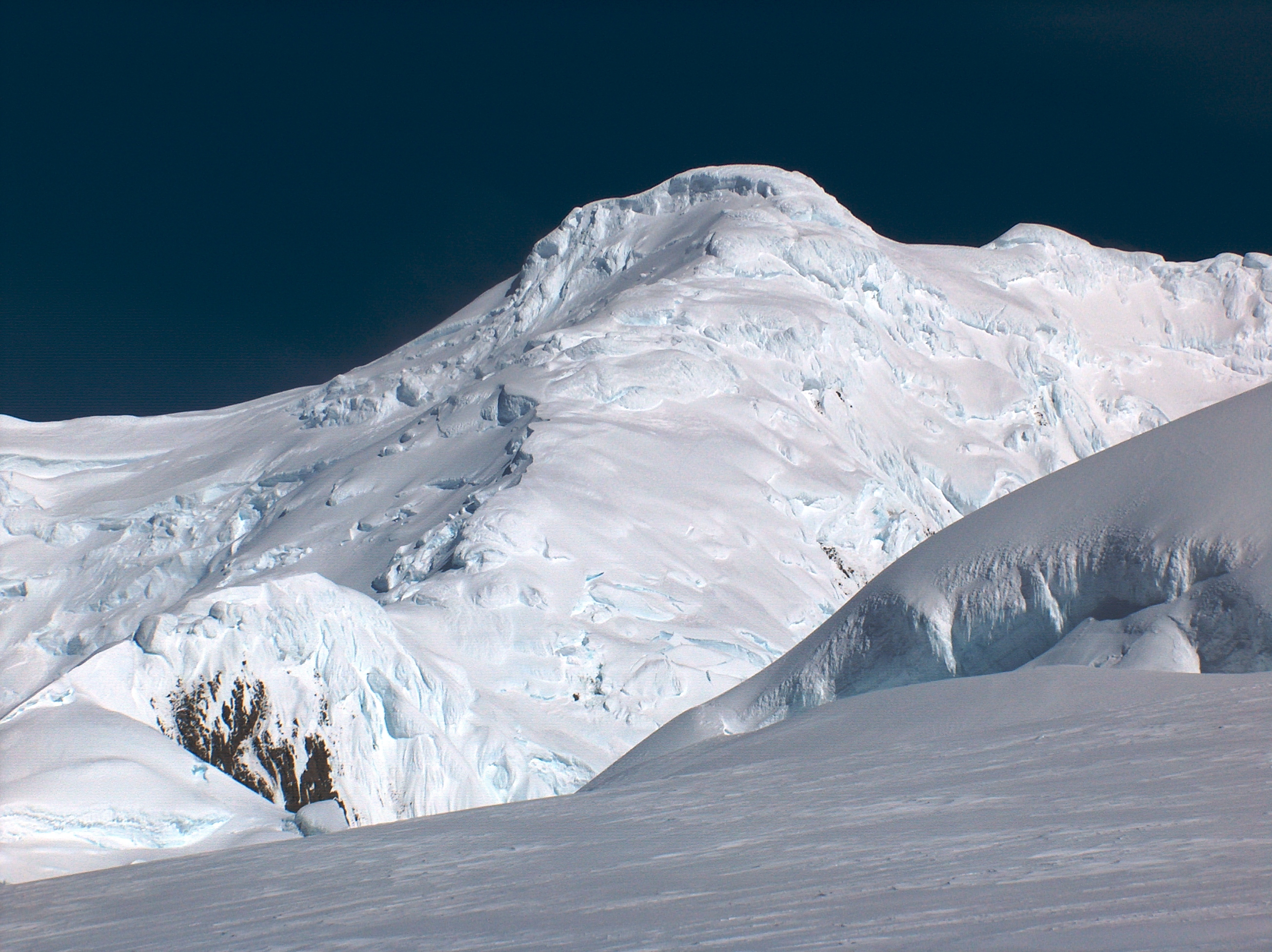 Photo of Mount Friesland, the summit of Livingston Island taken from Perunika Glacier, with Pliska Ridge on the right